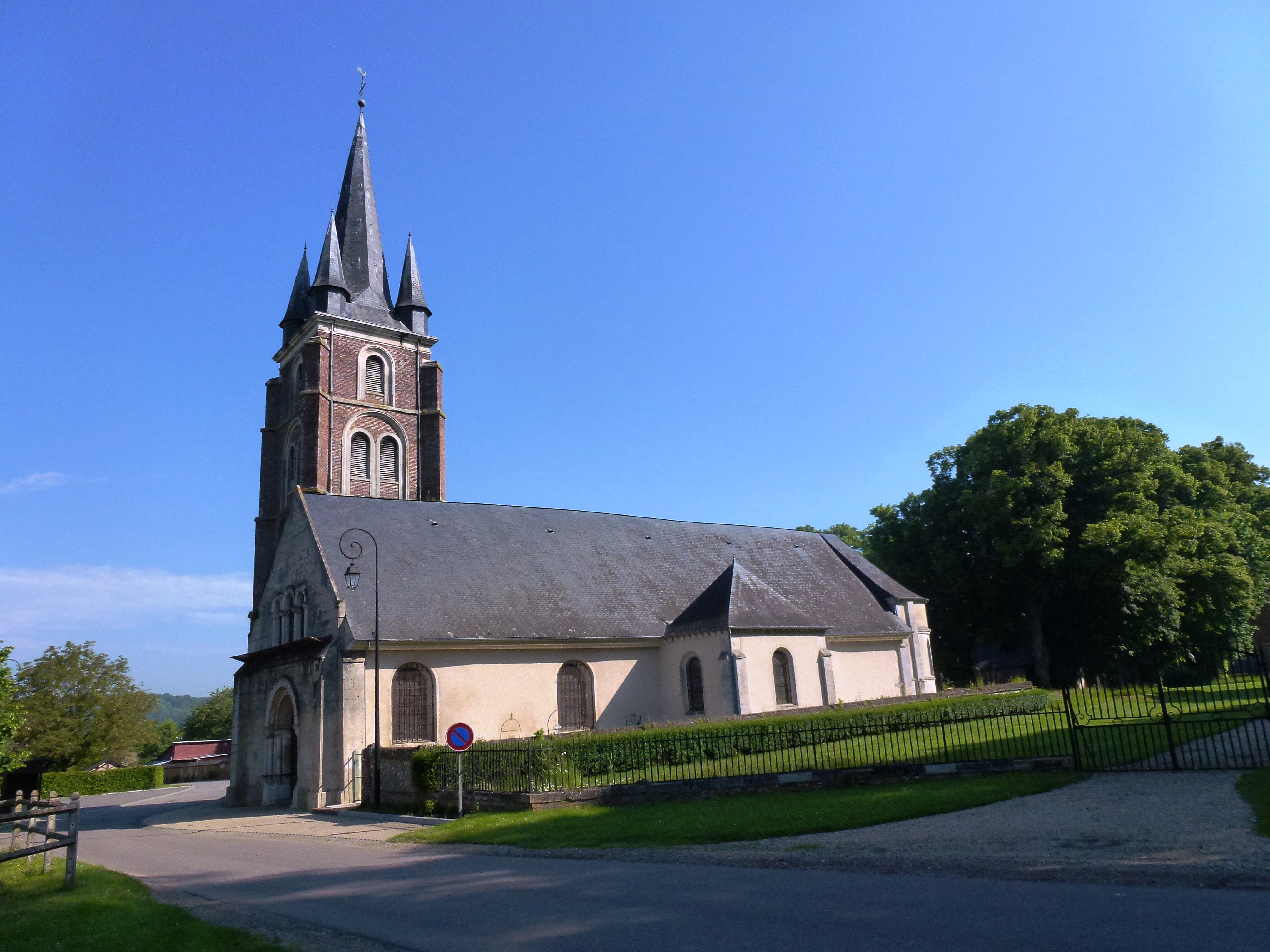 Fontaine-l'Abbé (Eure, Fr) église Saint-Jean-Baptiste